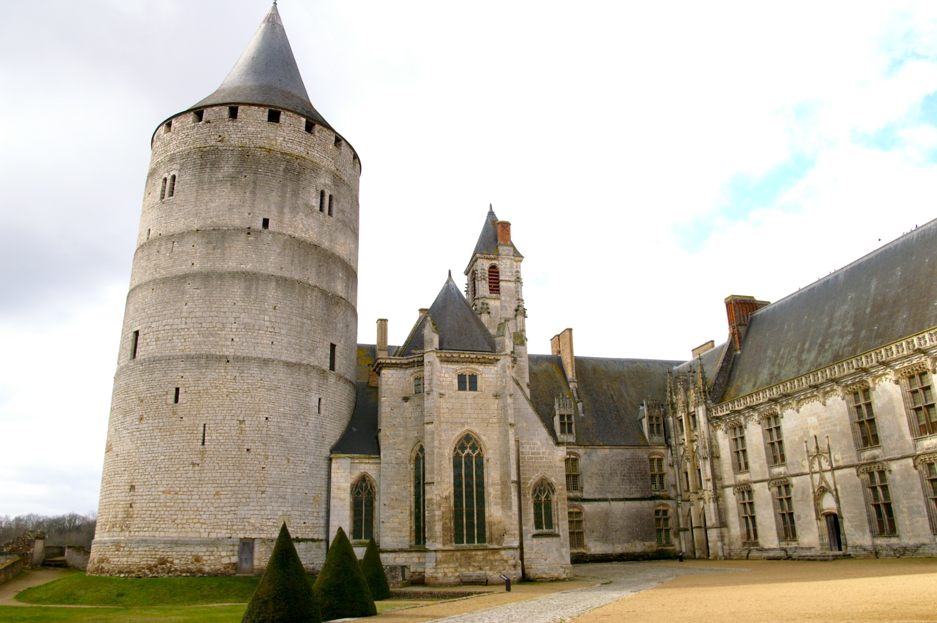 The castle of Châteaudun, Eure-et-Loir